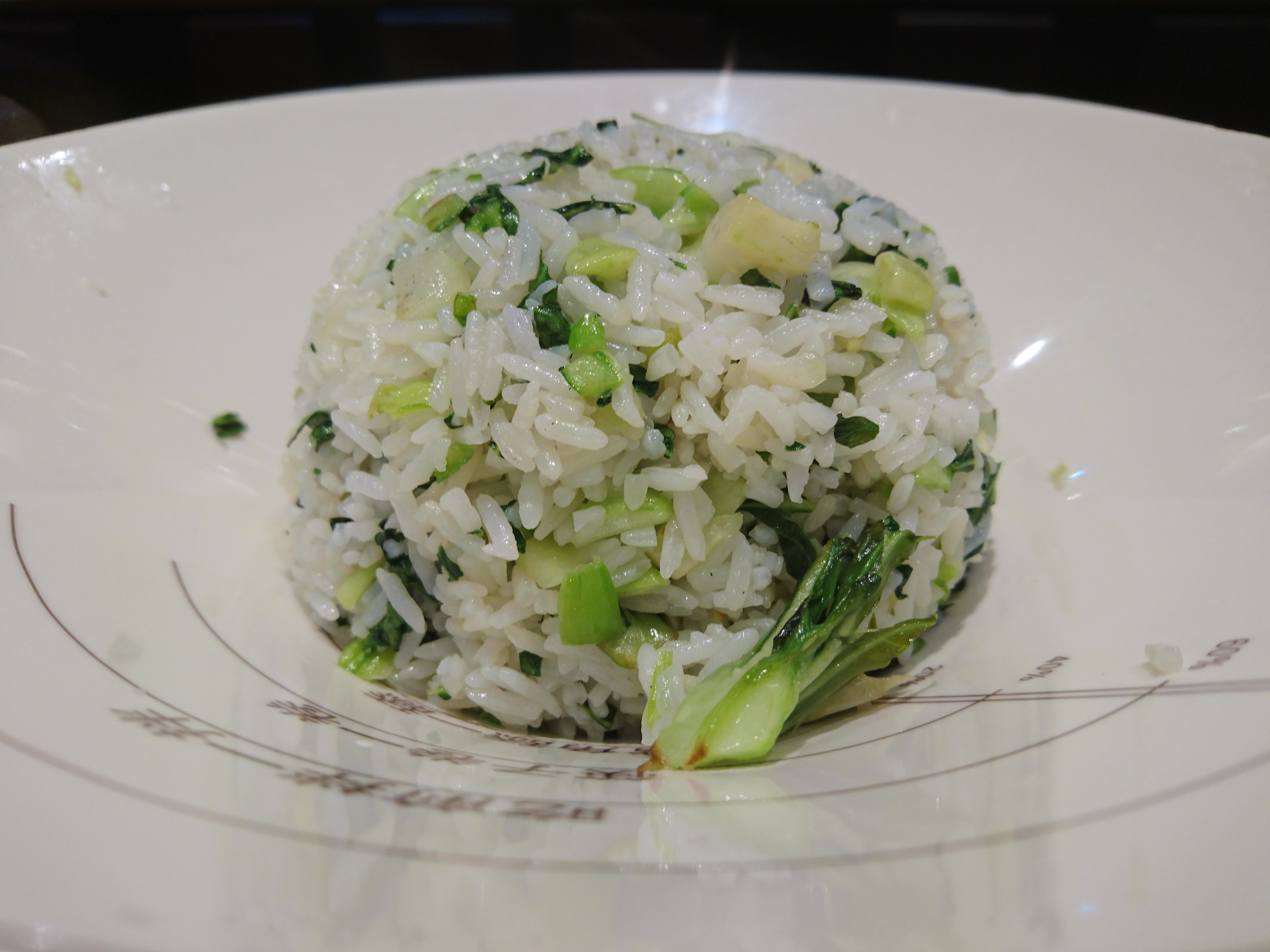 Rice with Chopped Bok Choy